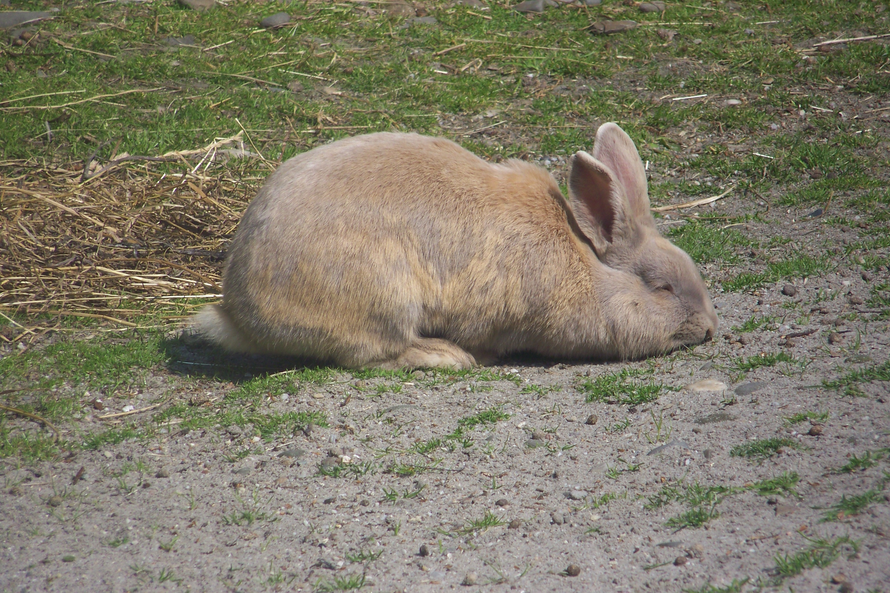 Rabbit of Český Luštič breed in ZOO Ostrava